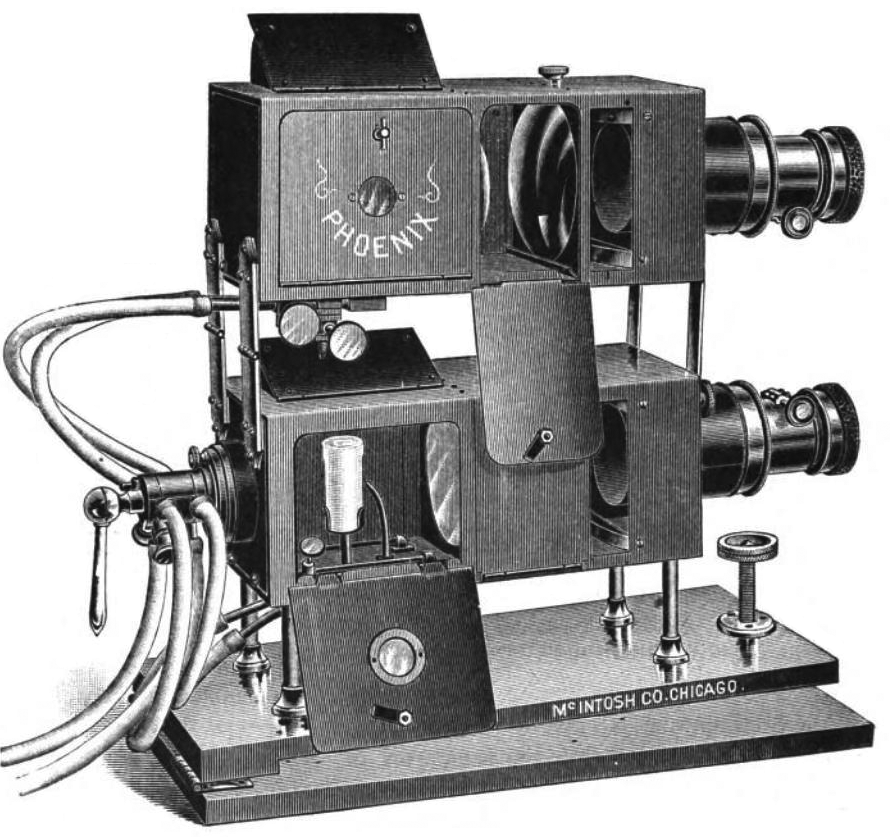 Illustration of a Phoenix model stereopticon